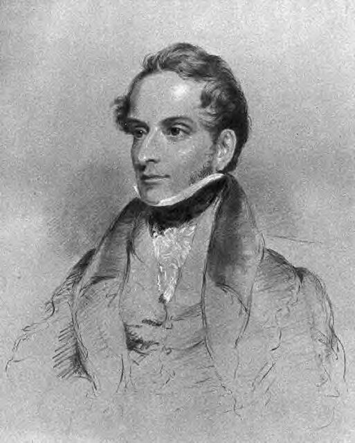 Arthur Aikin (19 May 1773 – 15 April 1854), English chemist, mineralogist and scientific writer, was born in Warrington, Lancashire into a distinguished literary family of prominent Unitarians.